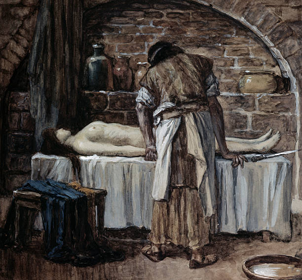 James Tissot: "The Levite Before The Corpse Of His Wife"